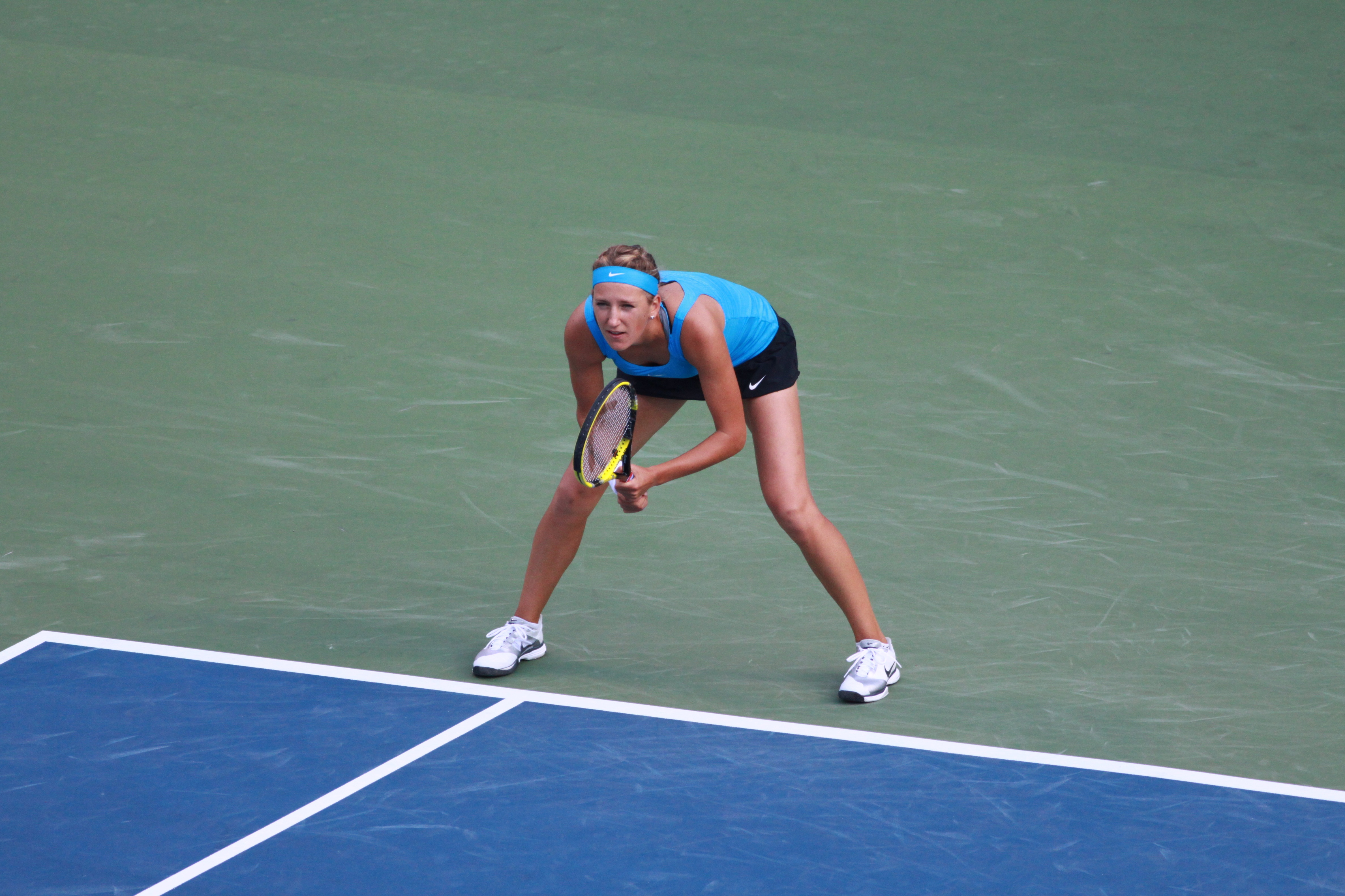 Rogers Cup 2011 Semifinal 2 Serena Williams vs Victoria Azarenka